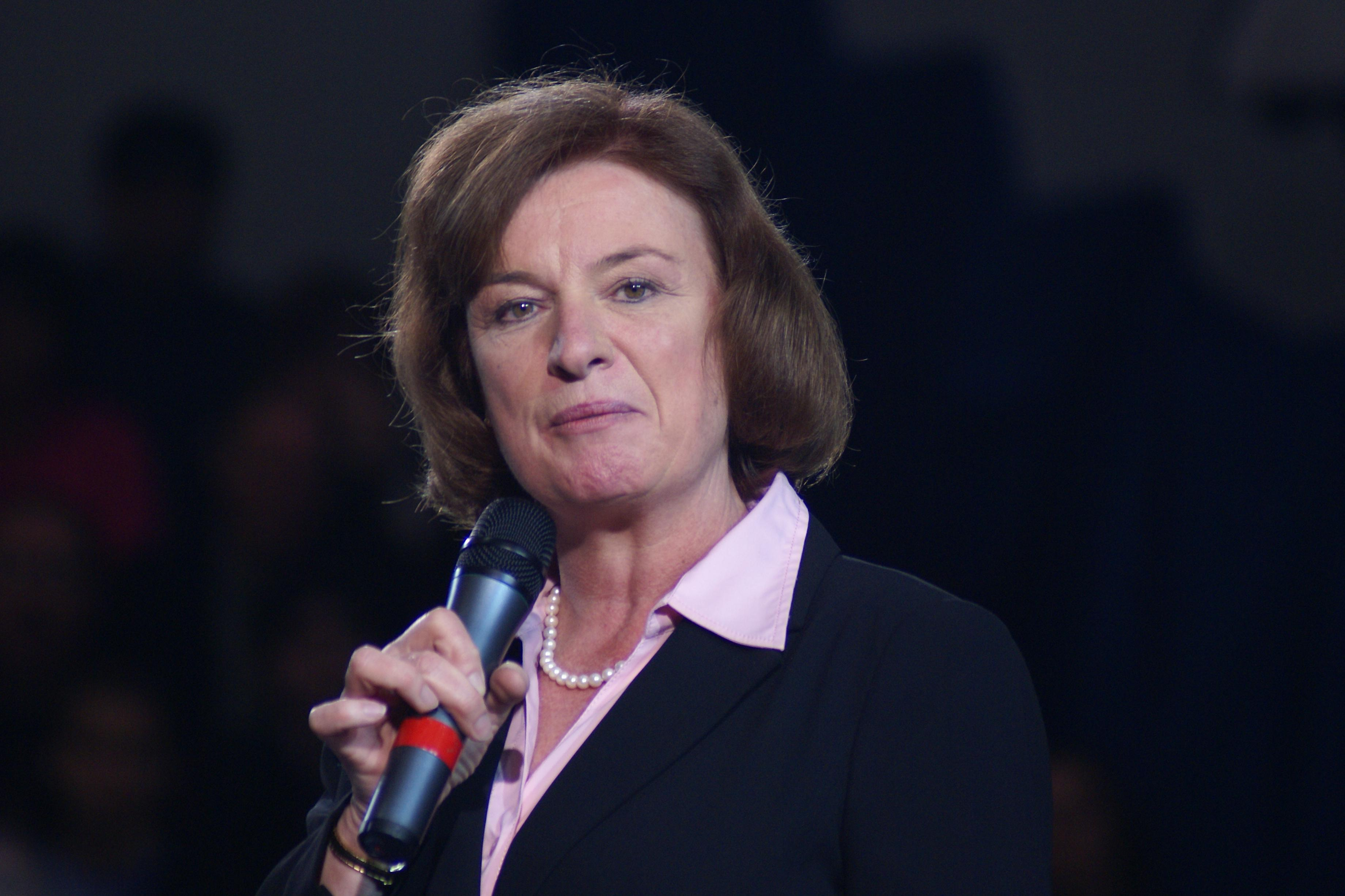 Carol Shea-Porter, member of the United States House of Representatives. New Hampshire's 1st congressional district